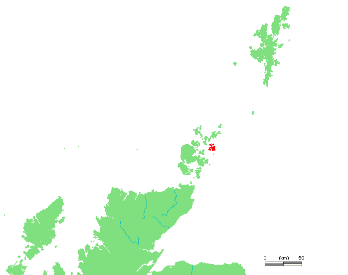 VK Stronsay.PNG (Orkney and Shetland islands, UK)